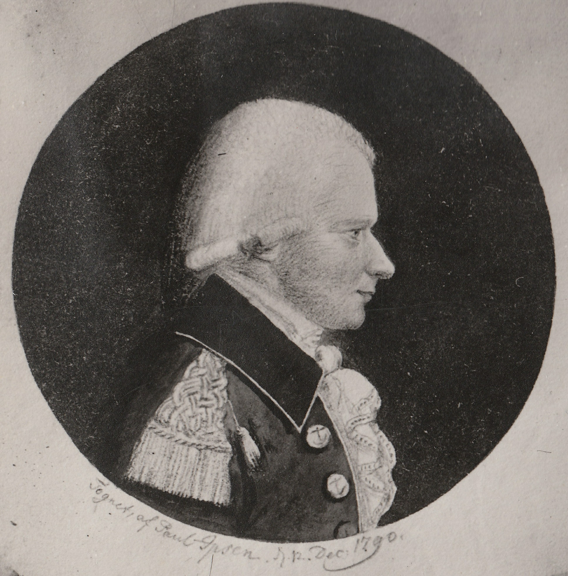 Portrait of Peter Greis Krabbe (1755–1807). Photographed by Erik Olsen in 1897 in connection with the exhibition Trondhjems 900-årsjubileum (Trondheim`s 900-years anniversary).